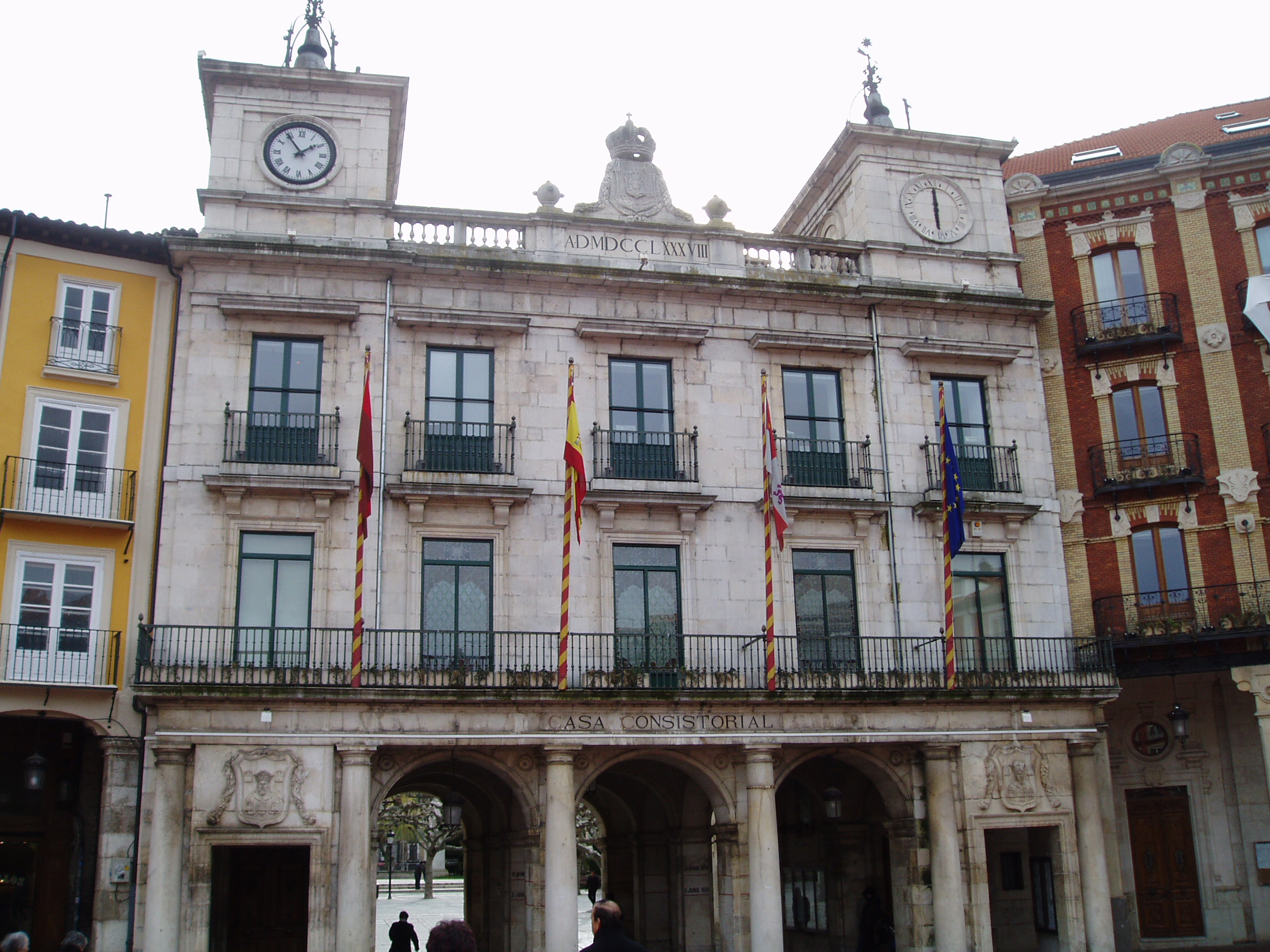 City Hall of Burgos (Spain). Architect: Fernando González de Lara (1791)